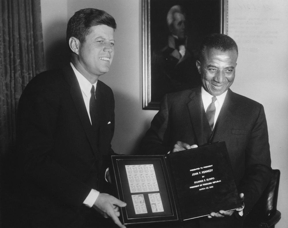 President of Togo, Sylvanus Olympio (right), presents to President John F. Kennedy a set of Togolese stamps honoring astronauts John H. Glenn, Jr. and Alan B. Shepard, Jr. Cabinet Room, White House, Washington, D.C.